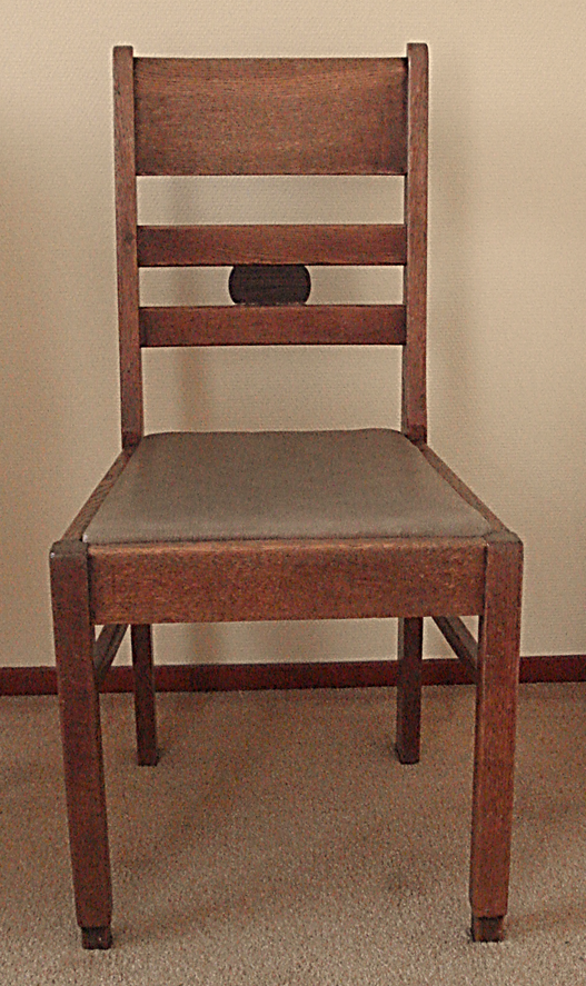 Fristho chair 1937 original with springy seat, upholstered with mock-velvet